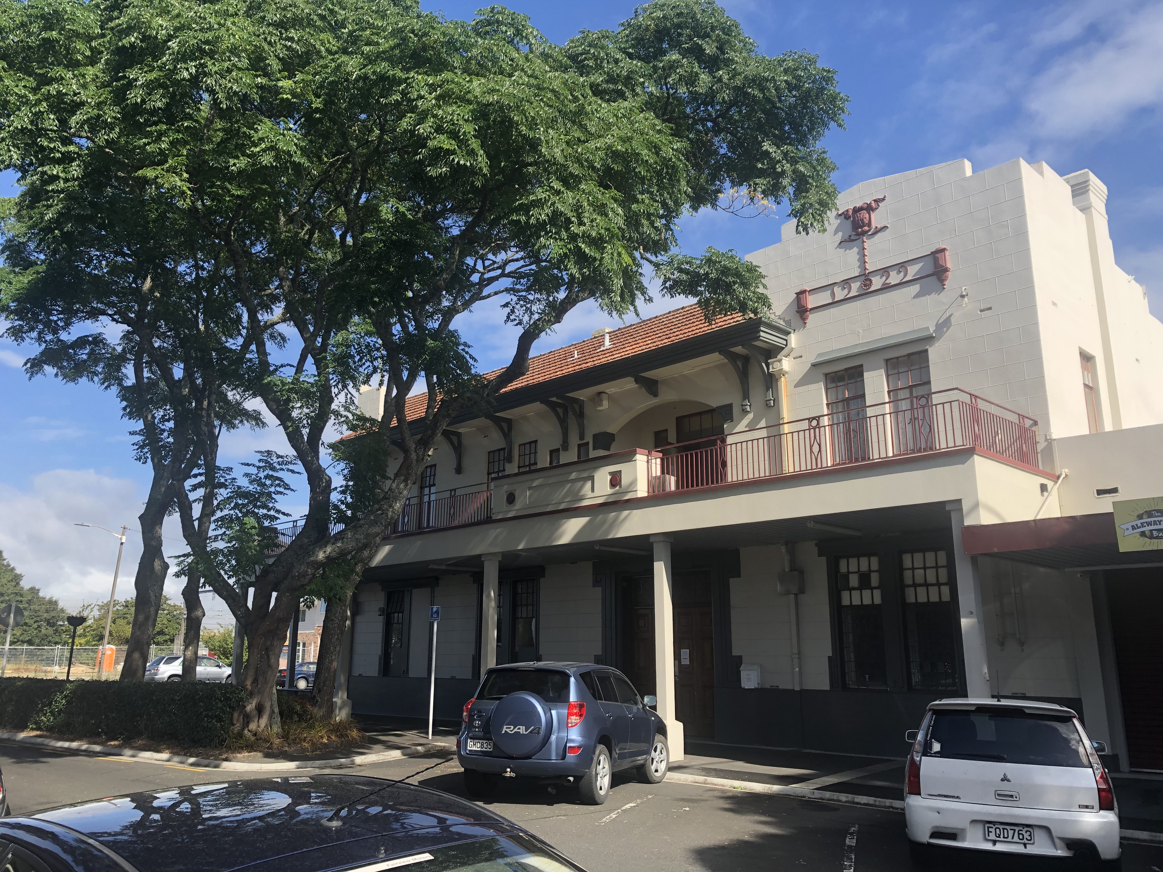 Frankton Hotel, Commerce Street. Historic Place Category 2.